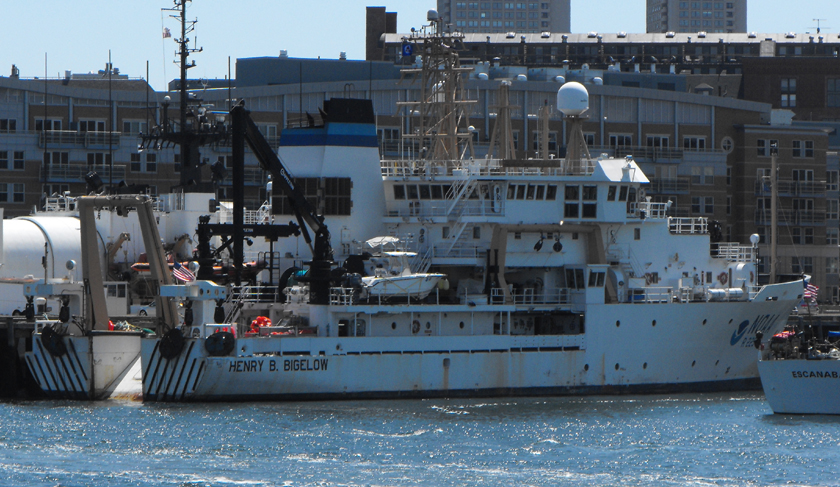 The NOAA vessel Henry Bigelow in Boston Harbor April 2010